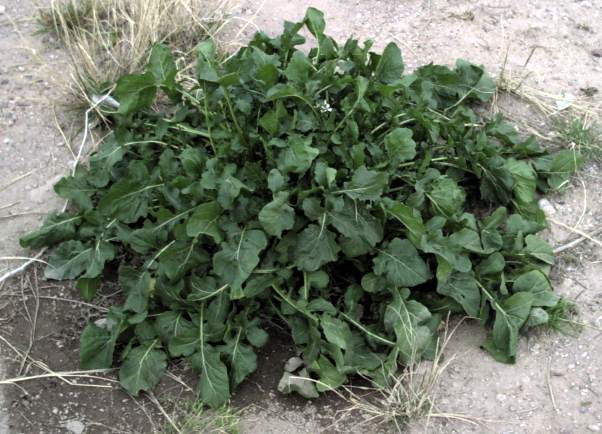 Healthy and happy arugula plant, just starting to flower. Photo by Eric Bear Albrecht, November 9, 2004. Placed in the public domain by the photographer.